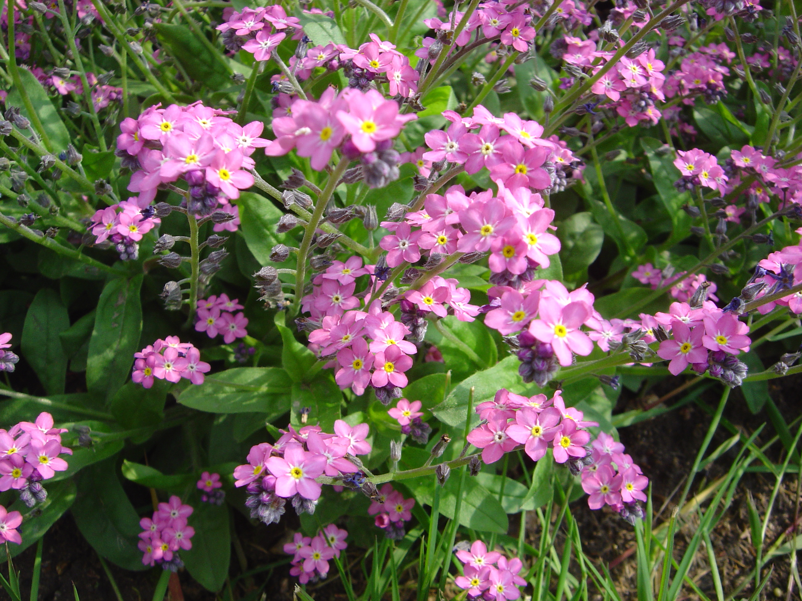 Myosotis sylvatica (Hoffm.) 'Rosylva' En: Photograph taken at the Jardin des Plantes in Paris, France Fr: Photographie prise au Jardin des Plantes à Paris, France